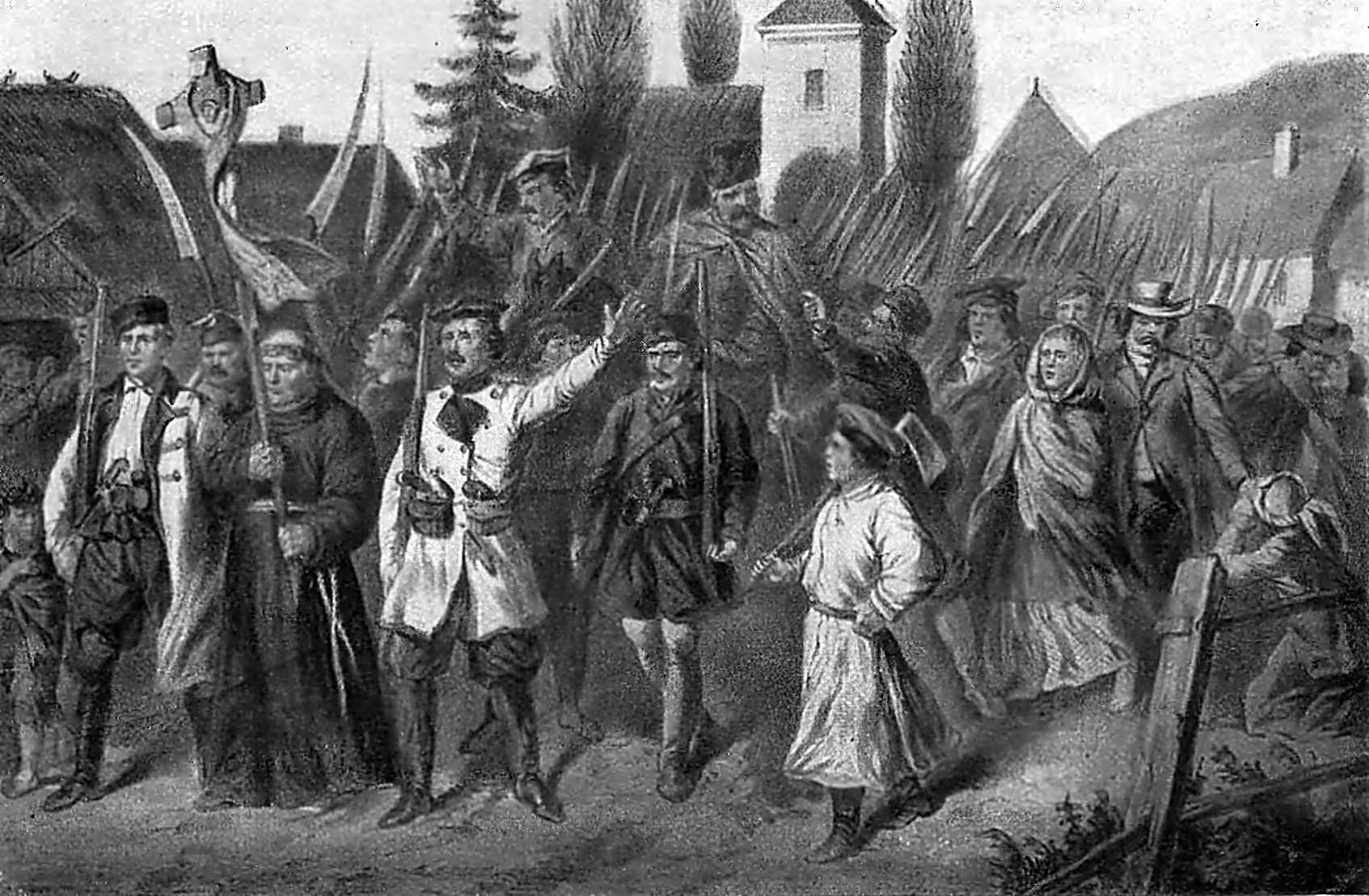 January Uprising insurgents leaving Grodno